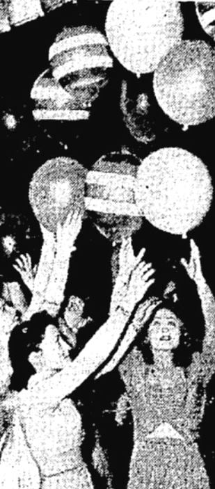 Photo of Balloon Night at the Stork Club. The balloons contained either folded $100 bills or numbers for prizes. The prizes might be a diamond bracelet or even a car, depending on what the number in the balloon matched on the club's prize list.